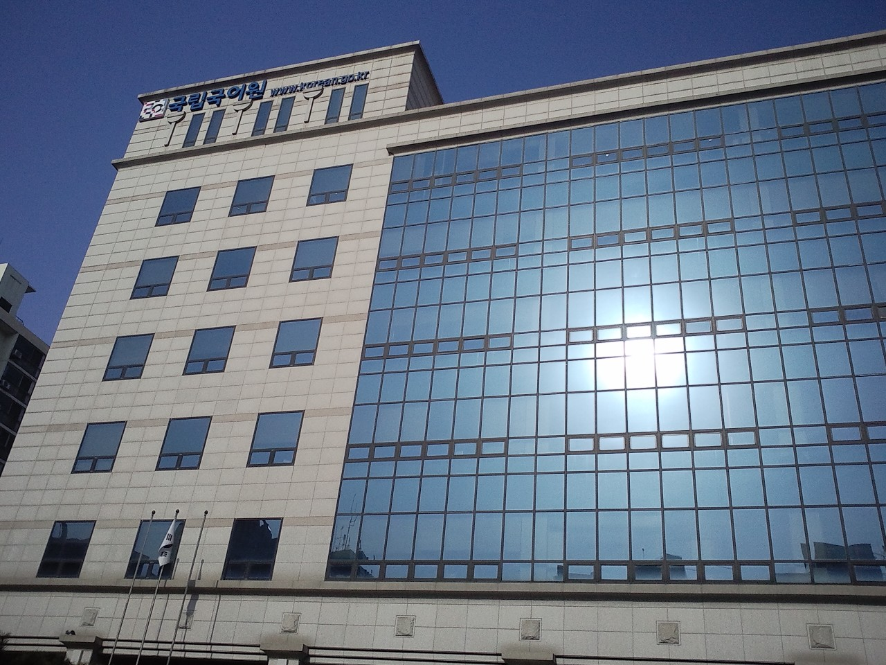 outside of NIKL